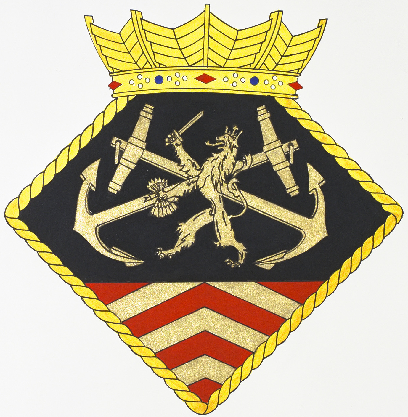 The emblem of the Groep Escorteschepen of the royal Dutch Navy